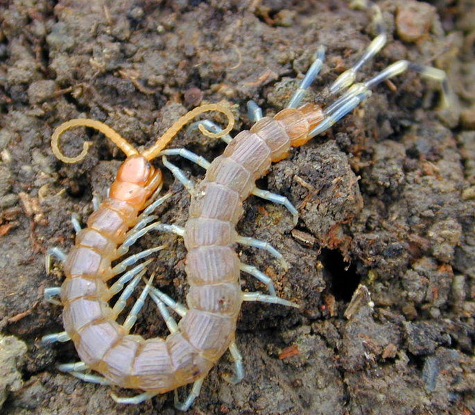 Unidentified Scolopendra species in peat marshlands of Kawai Nui, O'ahu, Hawai'i.